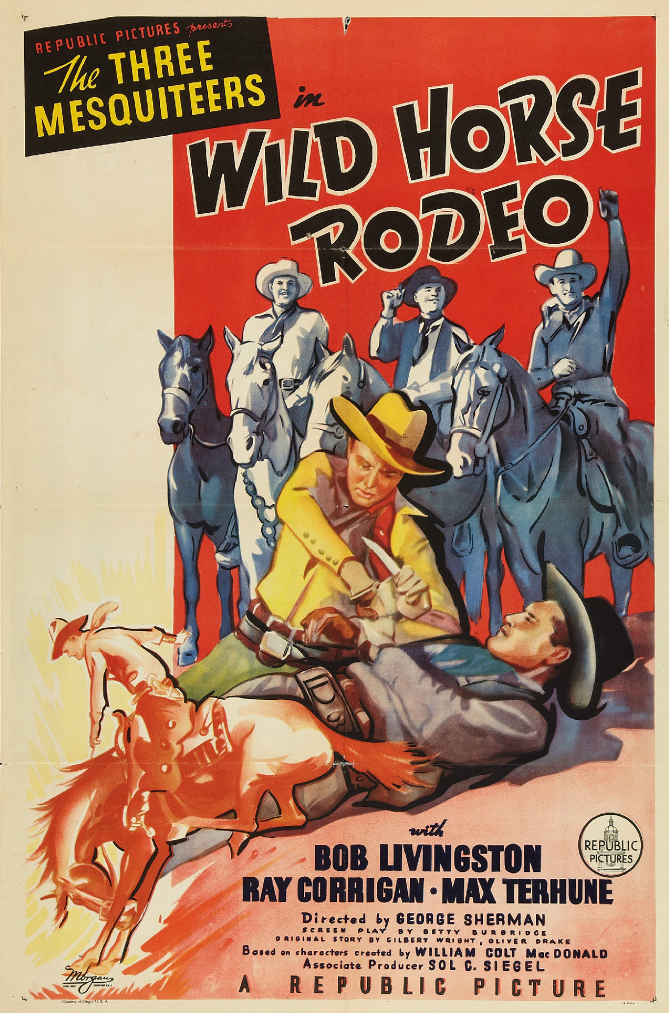 Poster for the 1937 film Wild Horse Rodeo. There are no copyright marks. At bottom left is Country of origin USA. At bottom right is (looks like) the numbers 12836.